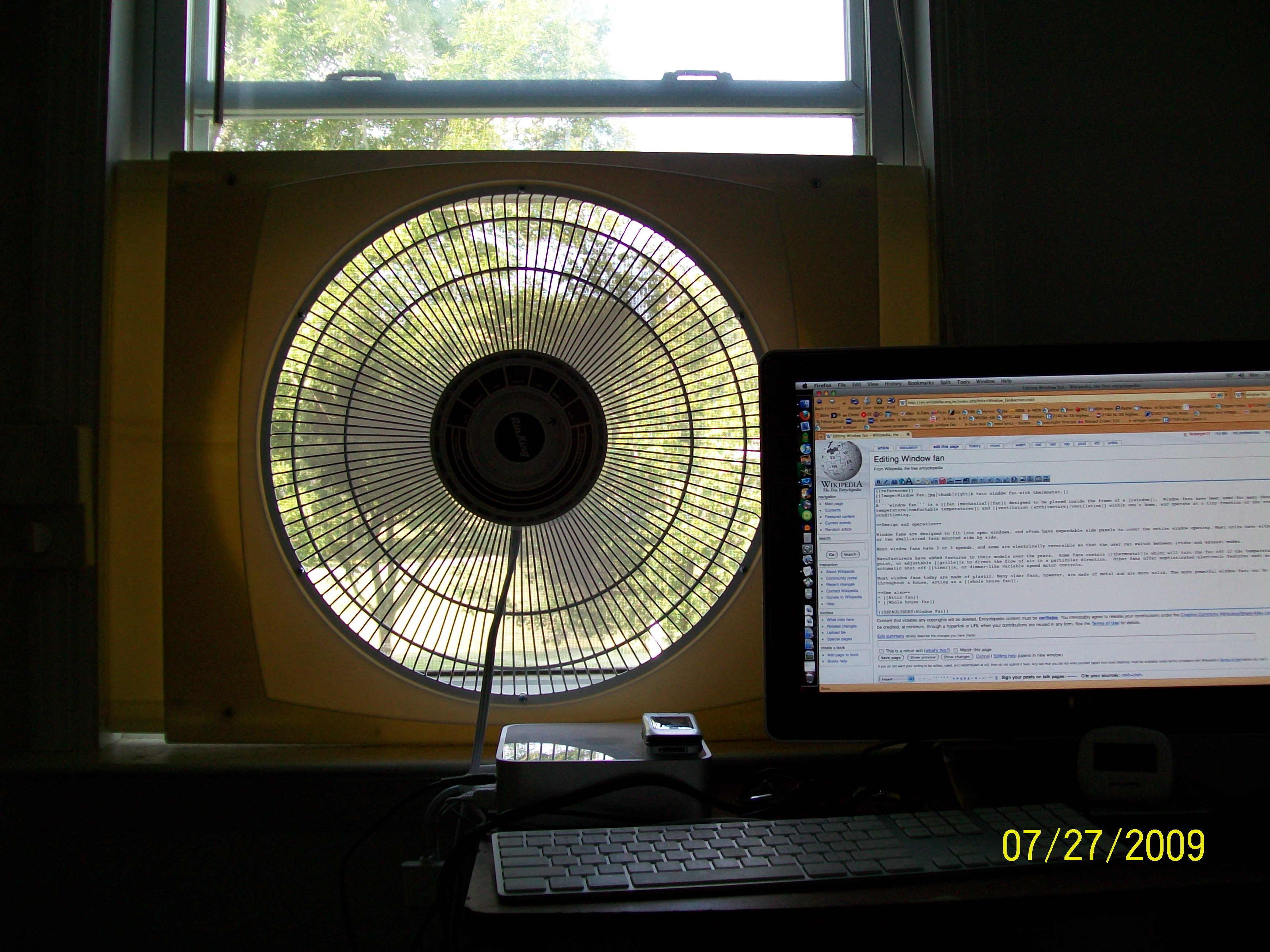 Photo of my brand new Air King model #9155 (also sold as Lasko model #2155A) window fan, for the window fan article.